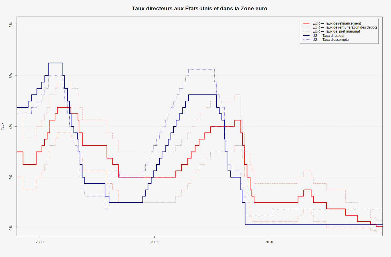 interest rates from the ECB and the (US) Fed bank